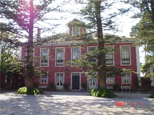 Quinta da picanceira